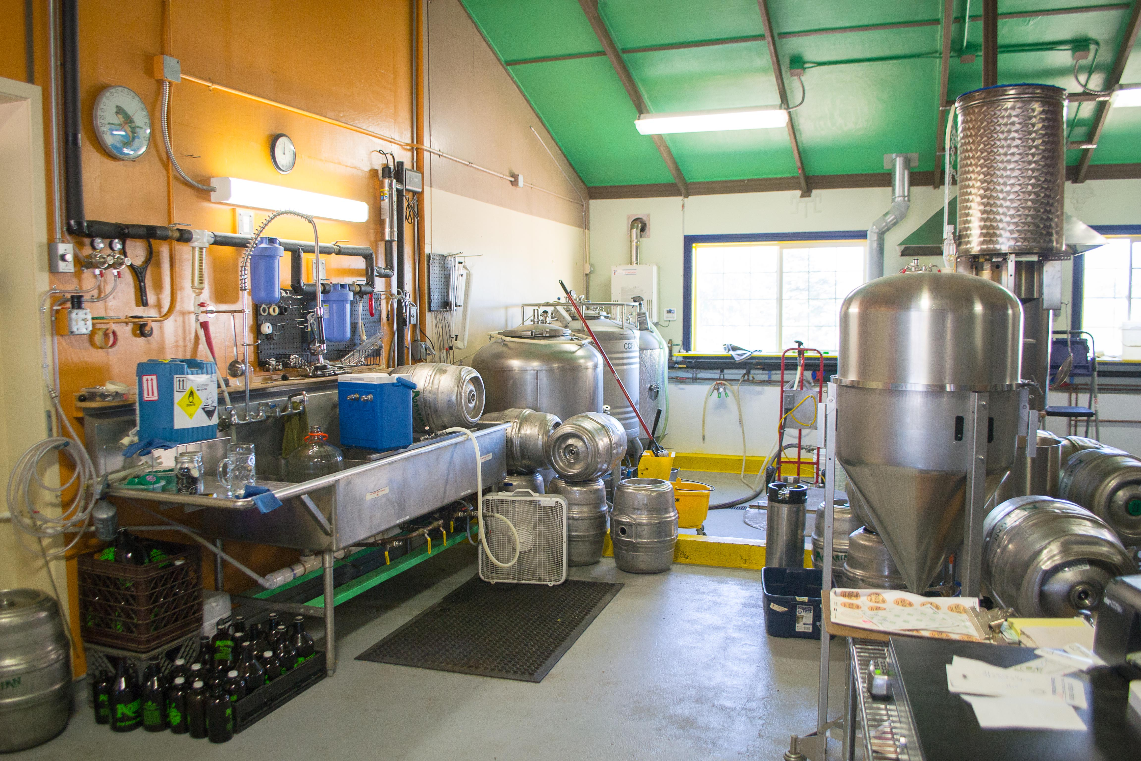 The Agrarian Ales craft brewery near Coburg, Oregon